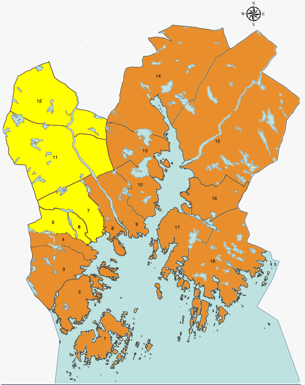 Map of the district Grim in Kristiansand municipality.